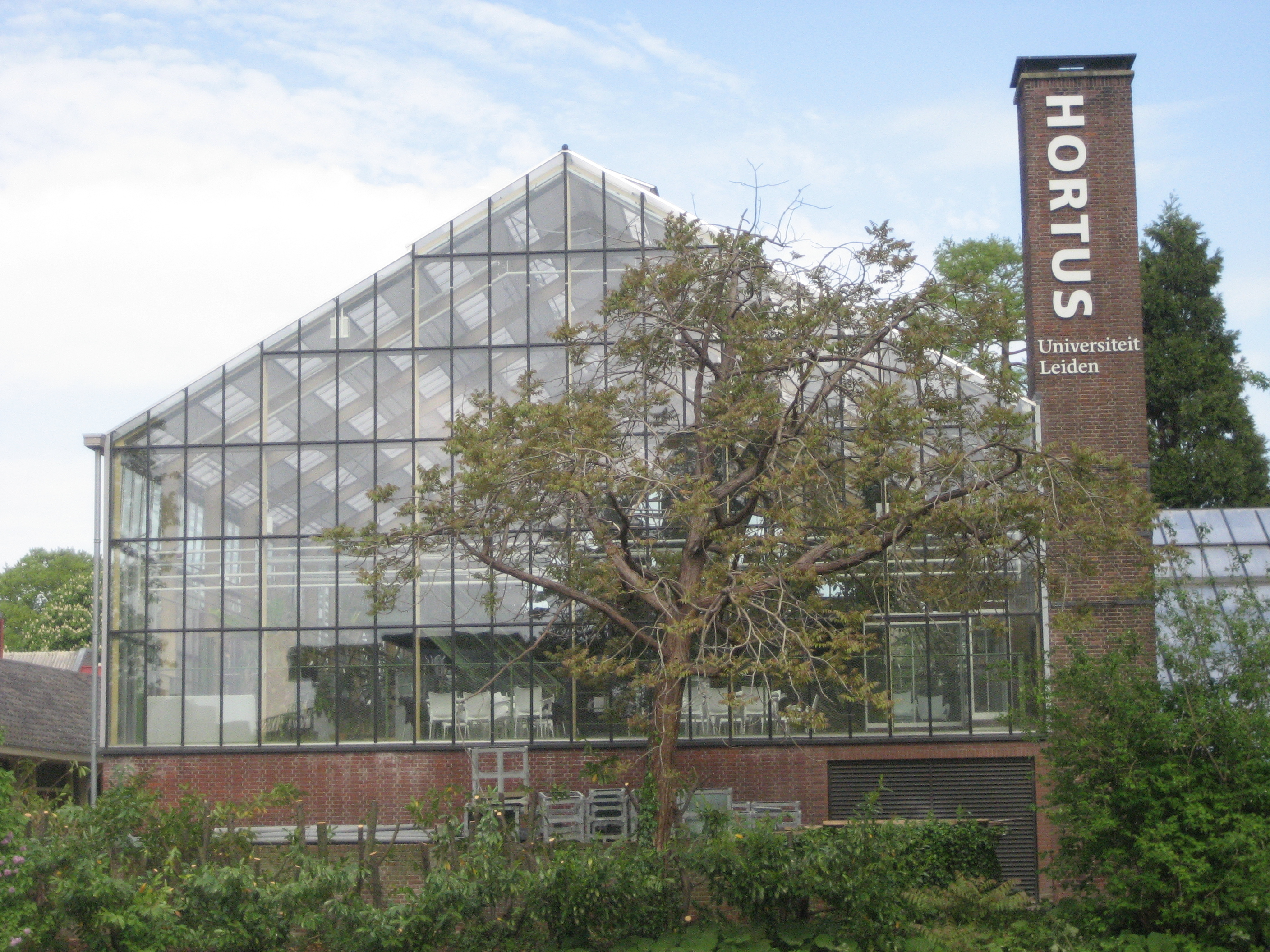 Hortus Botanicus, Leiden